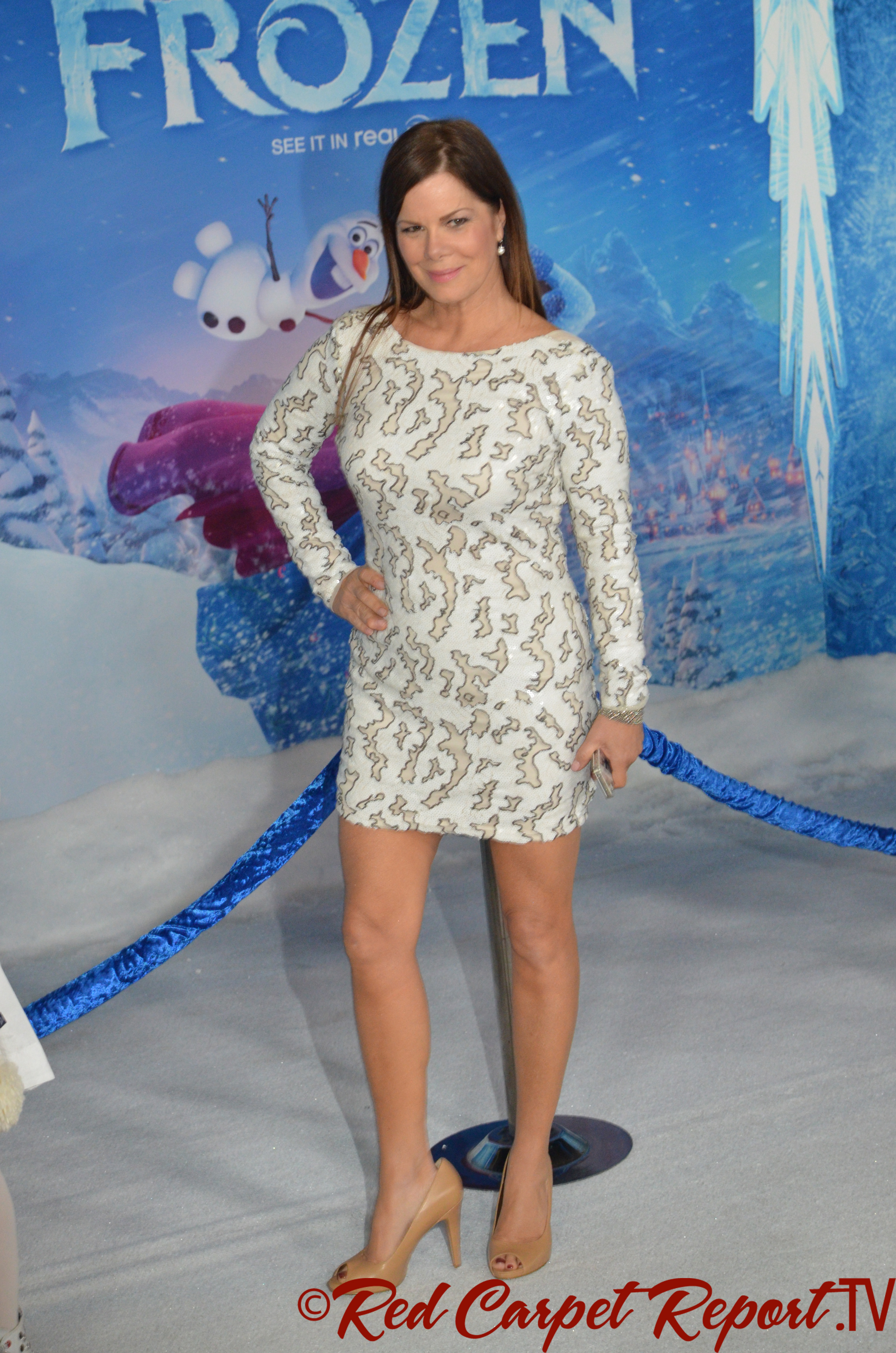 Marcia Gay Harden at the premiere of the Disney's animated feature film "Frozen" at Hollywood's El Capitan Theatre